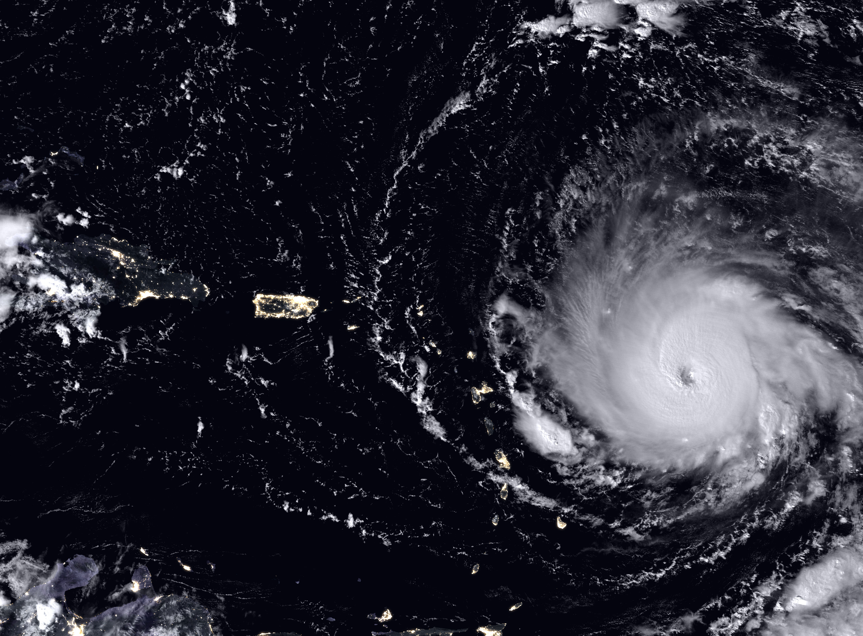 The Visible Infrared Imaging Radiometer Suite (VIIRS) on the Suomi NPP satellite captured this nighttime view of the storm in the early hours of September 5. The image was acquired by the VIIRS “day-night band,” which detects light in a range of wavelengths from green to near-infrared and uses filtering techniques to observe signals such as city lights, auroras, wildfires, and reflected moonlight. In this case, the clouds were lit by the nearly full Moon. The image is a composite, showing storm imagery combined with VIIRS imagery of city lights.